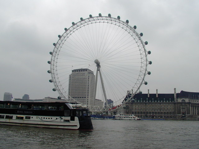 The London Eye Eye, Eye. The London Eye as seen from the great lady herself, the river Thames